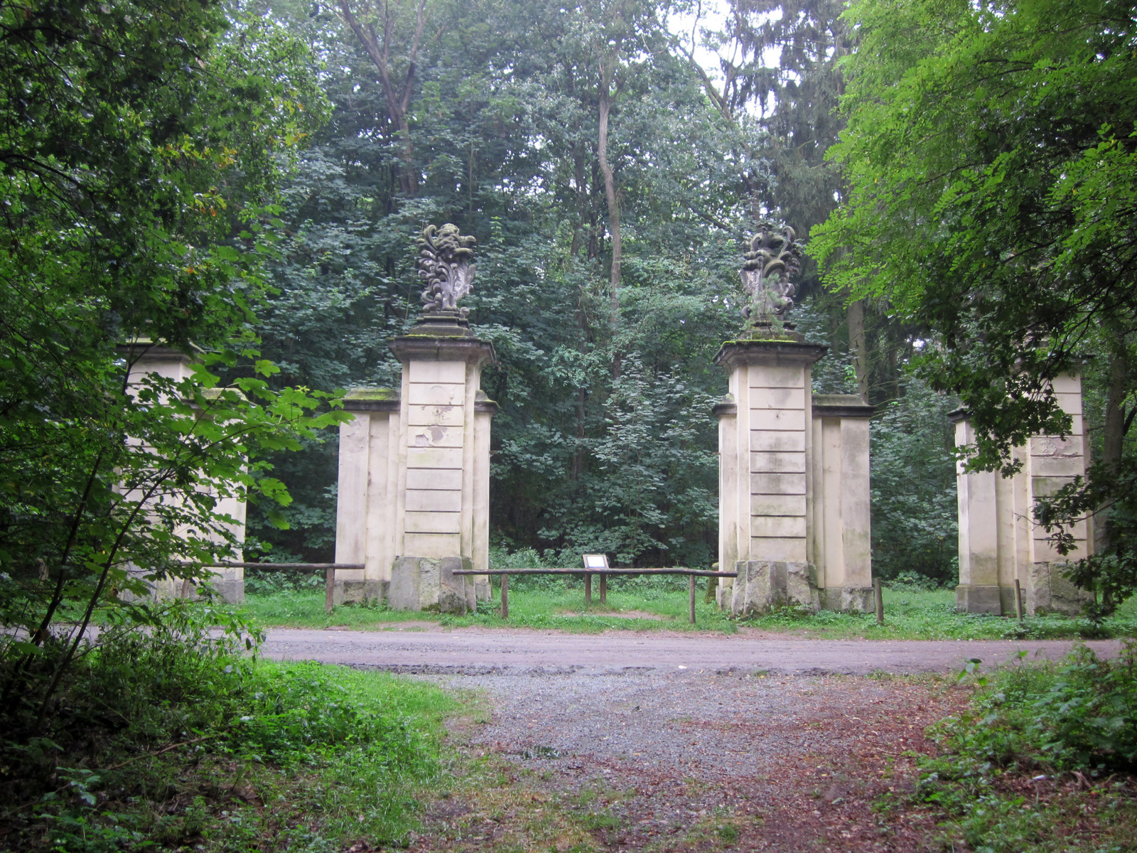 Gate to the former castle Friederikenburg in the Steckby-Lödderitzer wood. Near Aken (Elbe), Sachsen-Anhalt, Germany.